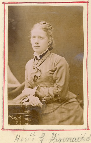 English philantropist Gertrude Kinnaird (1853-1931)